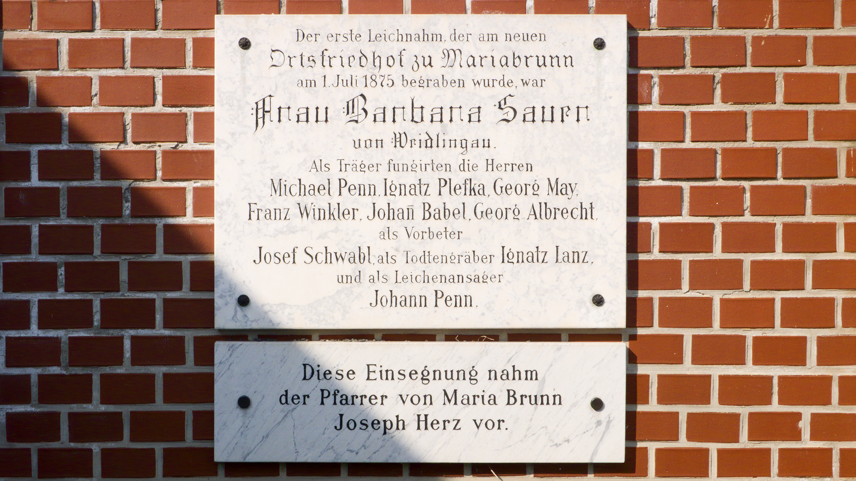 Cemetary Friedhof Hadersdorf-Weidlingau in Vienna Penzing